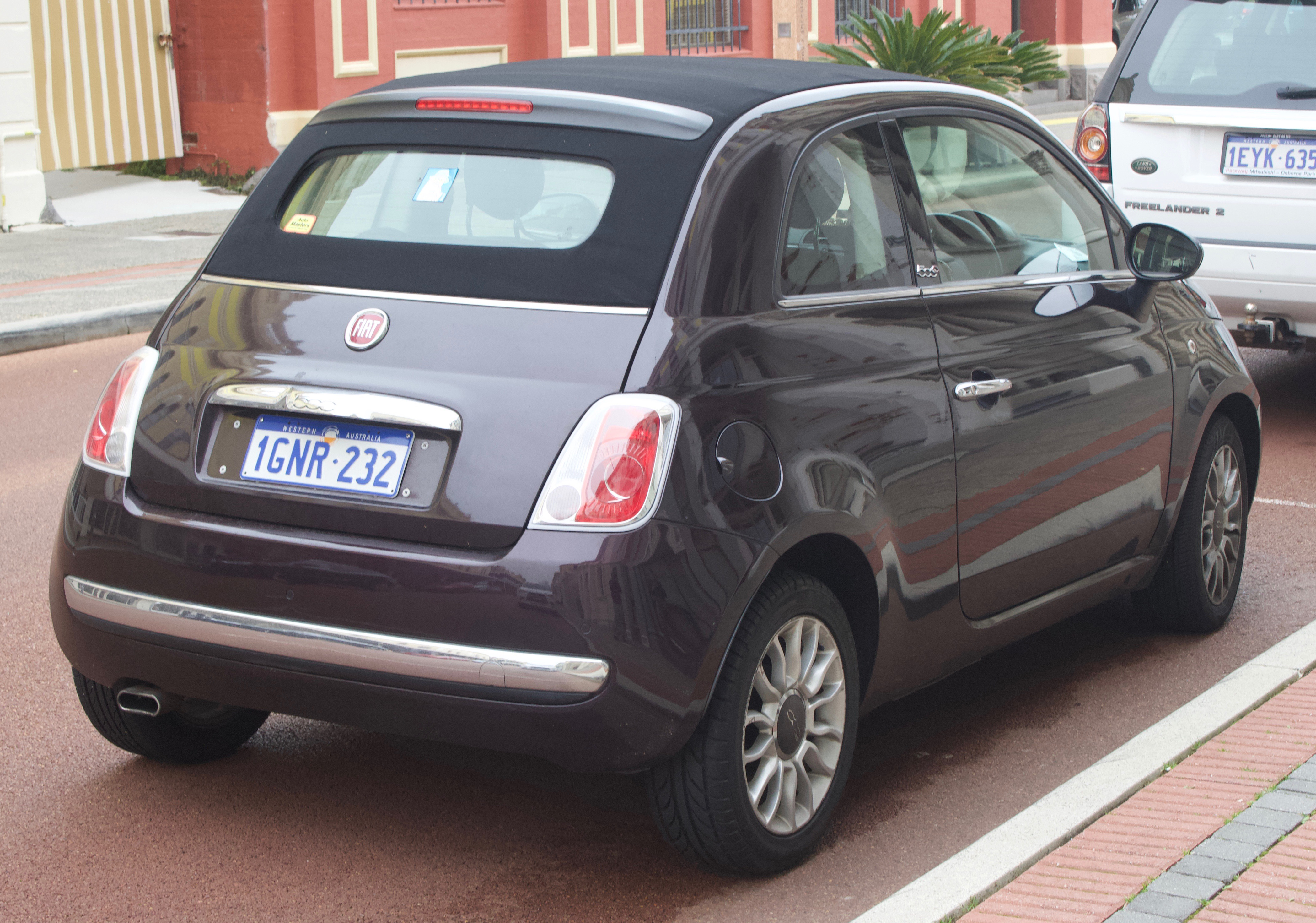 2013 Fiat 500C Lounge convertible. Photographed in Fremantle, Western Australia, Australia.